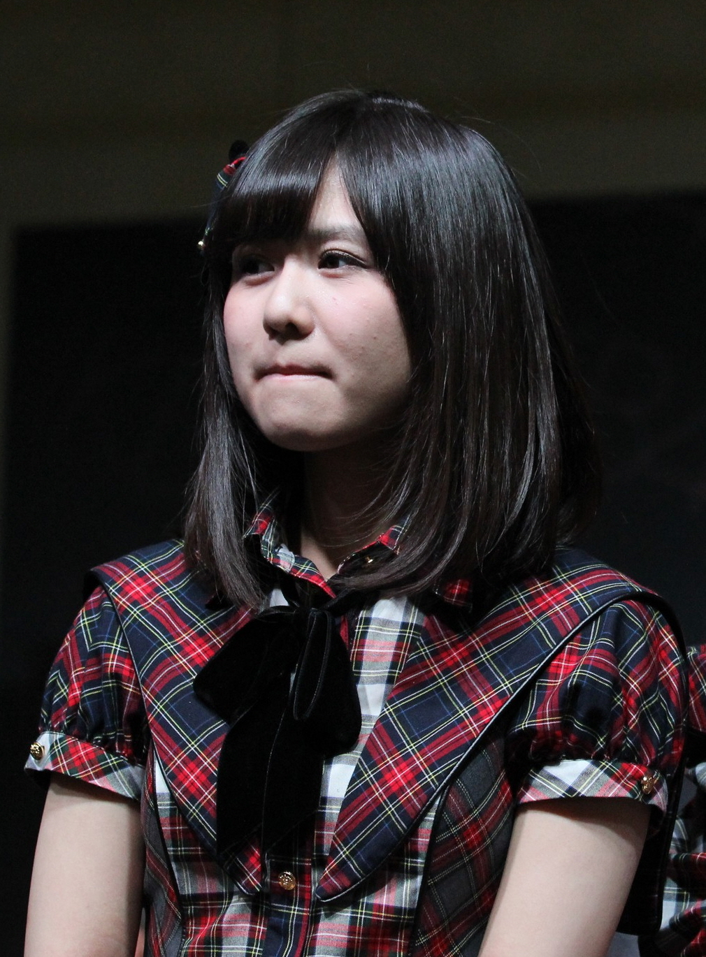 130413 AKB48 at Tokyo Auto Salon Singapore Meet & Greet 2 and Performance (Sumire Sato)